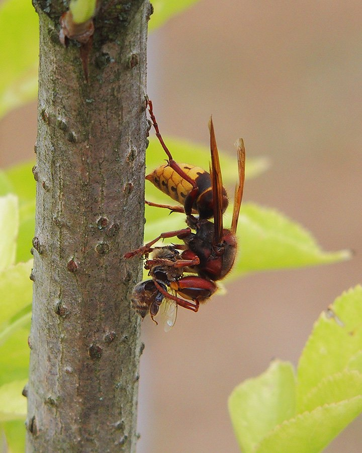 Hornet dismembering a honey bee